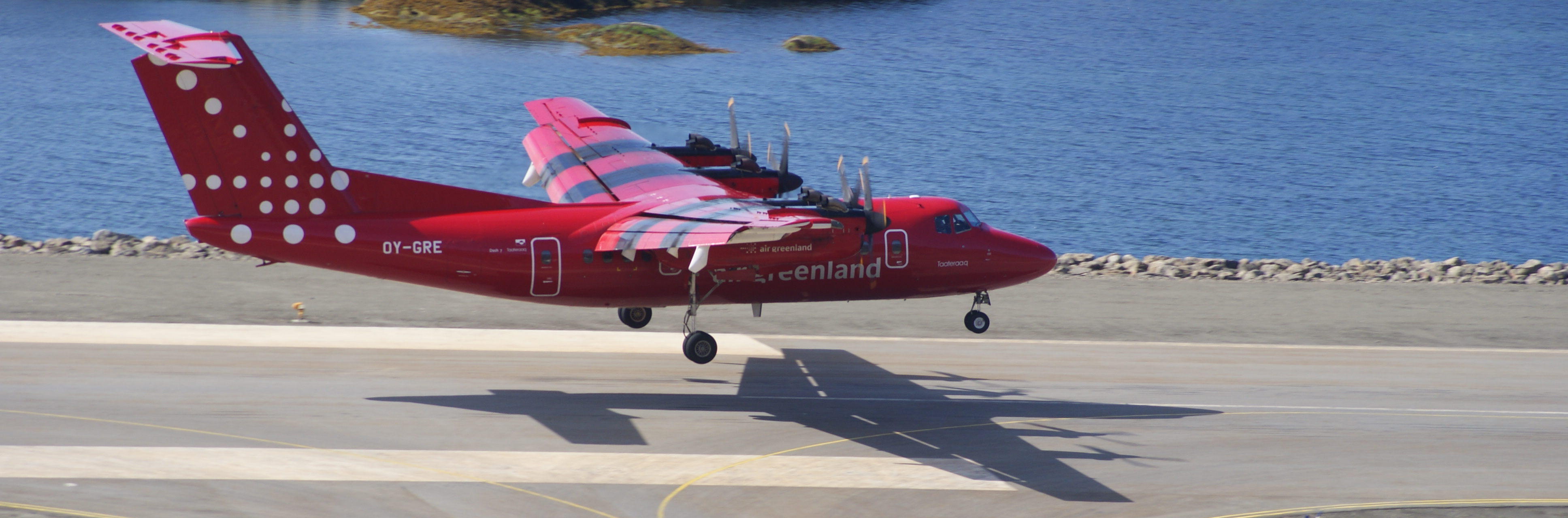 Air Greenland de Havilland Canada Dash-7 "Taateraaq" landing at Sisimiut Airport, Greenland, during a flight from Kangerlussuaq Airport. Cropped.